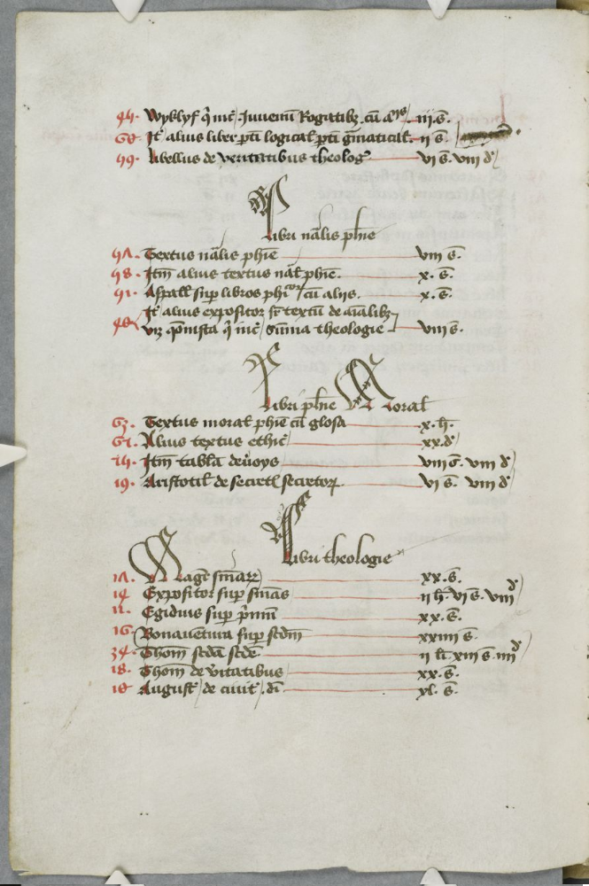 List of books in Thomas Markaunt's collection, with their prices. In the library of Corpus Christi College, Cambridge, MS 232, f. 9r